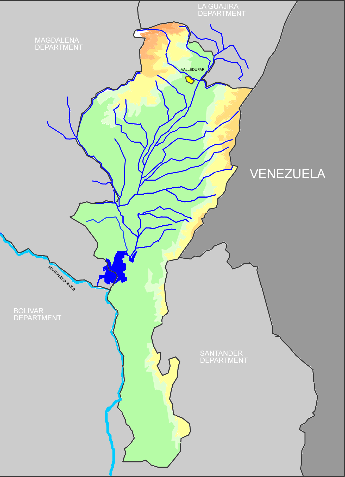 Image depicts the map of the Cesar Department in Colombia, the Cesar river basin only. Made by User:f3rn4nd0 for wikipedia and sister projects only.